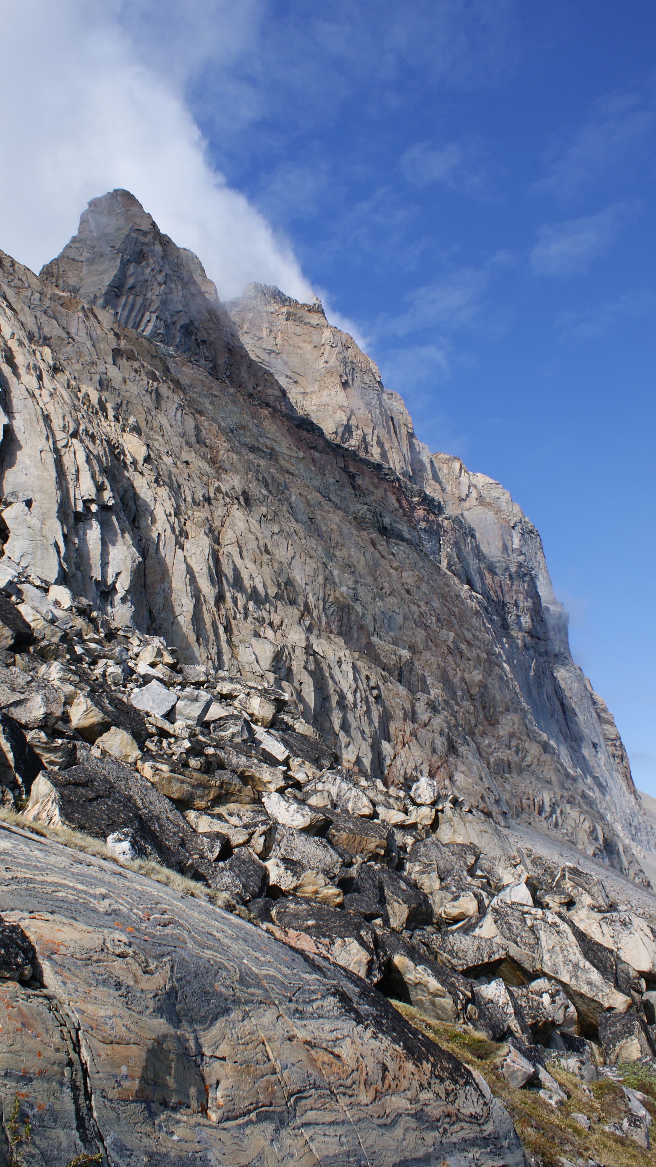 Uummannaq mountain, 1170m, Greenland. Eastern summit, its eastern wall in profile, photographed from the wall base at the Nuussuatsiaq promontory, eastern coast of the Uummannaq island.